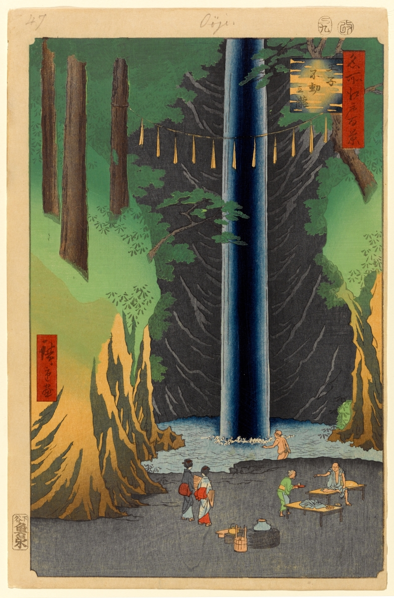 Part of the series One Hundred Famous Views of Edo, no. 049, part 2: Summer.